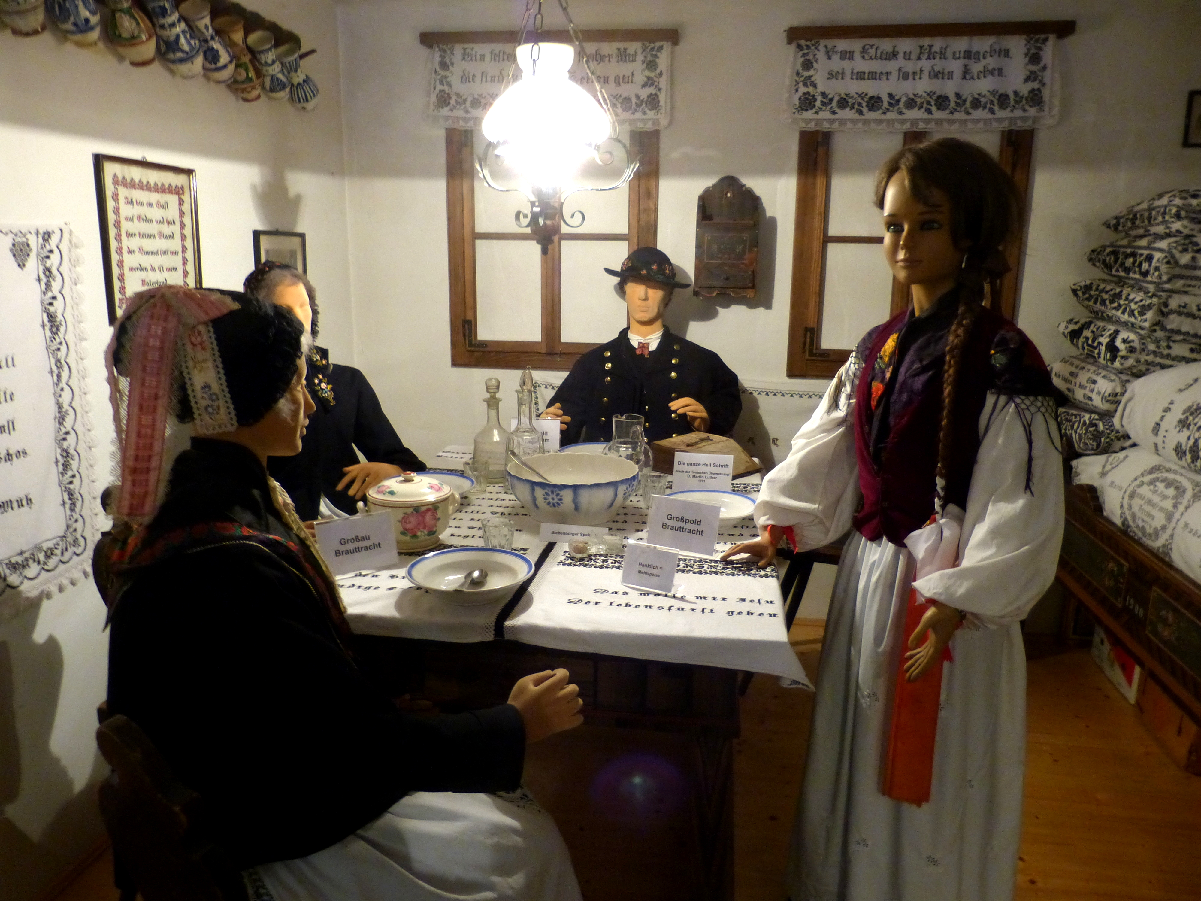 Bad Goisern ( Upper Austria ). Landler museum: Local costumes of the Austrian protestant Landler community in Großpold ( Apoldu de Sus, Romania )